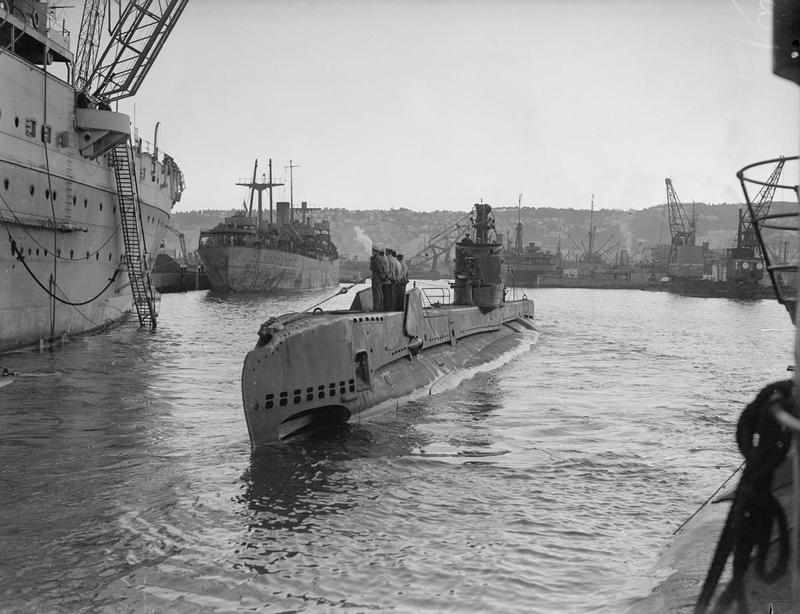 Britain's Underwater Fighters. 7 To 10 February 1943, Algiers, Men and Ships of the British Submarine Service. HM SUBMARINE SARACEN underway.